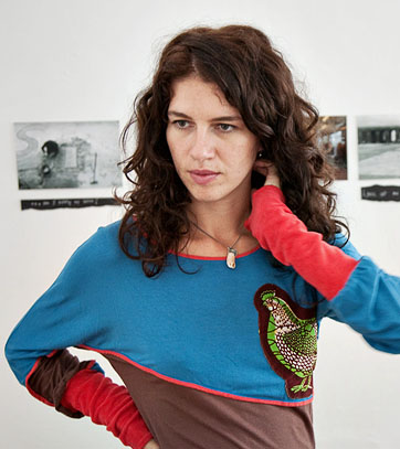 Portrait of the Czech photographers Lucia Nimcova